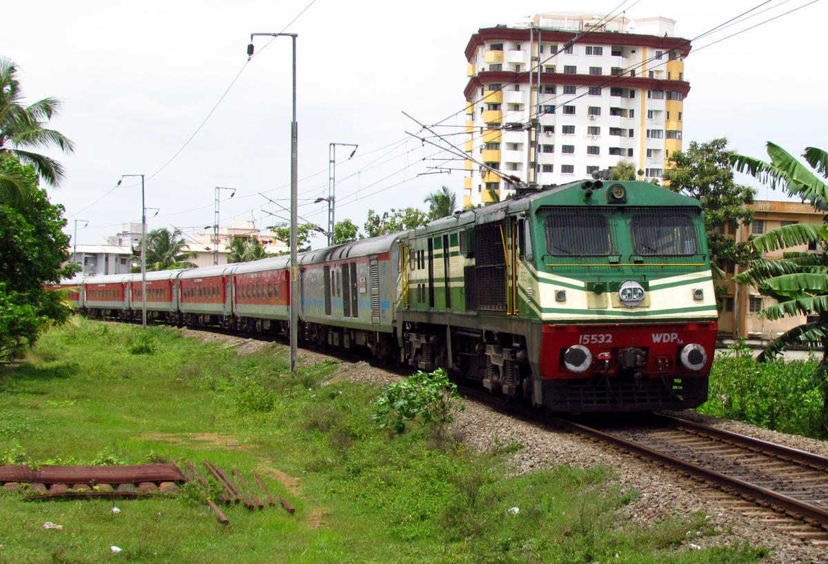 Trivandrum Rajdhani train